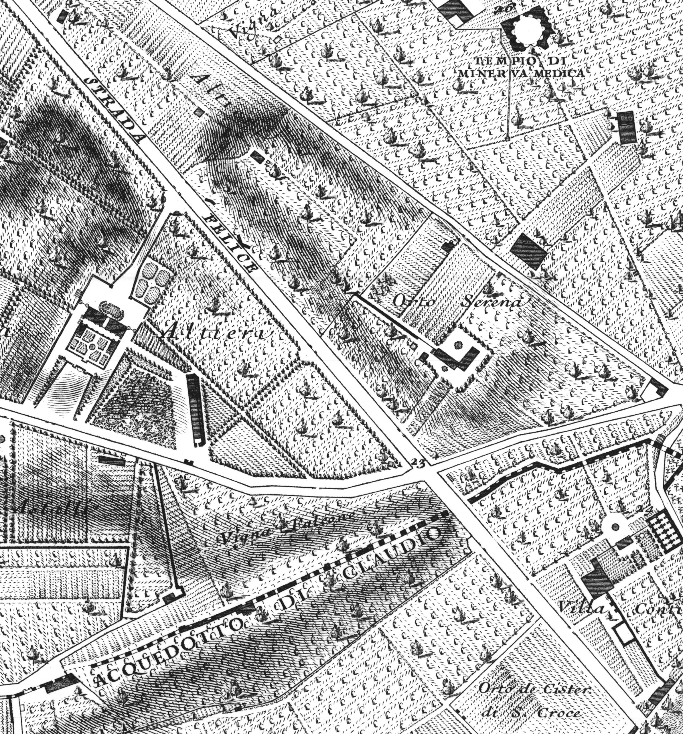 The New Plan of Rome by Giambattista Nolli part 9/12